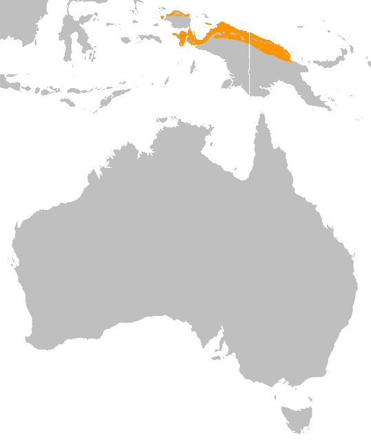 Casuarius unappendiculatus distribution map, based on IUCN data.